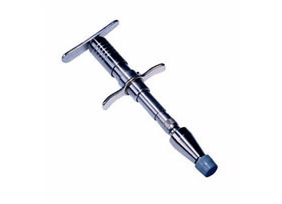 This is an Activator II model adjustment instrument used by Chiropractors trained in the Activator Technique of spinal adjustments.